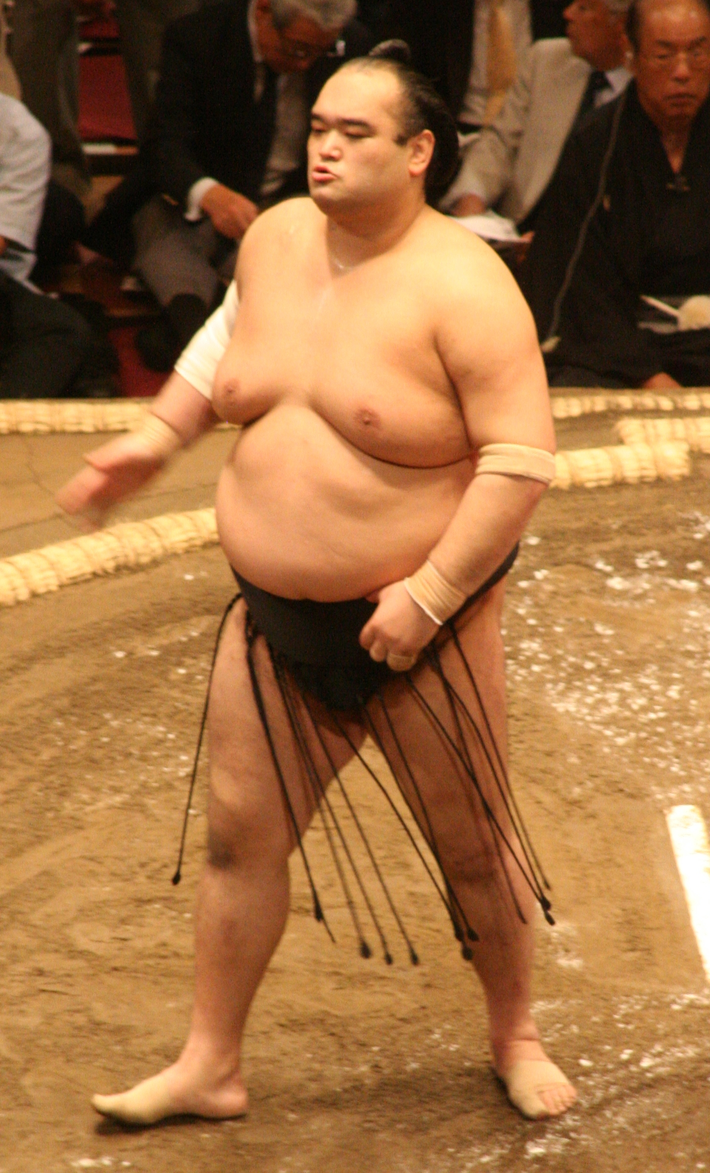 First day of 2009 May Sumo Tournament in Tokyo, Japan - Bushuyama